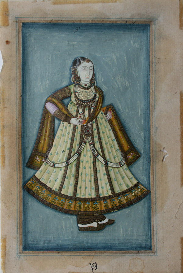 An illustrated image of Mah laqa bai- a courtesan of Nizam of Hyderabad, in Hyderabad, Deccan (now Hyderabad, India). 17th century miniature painting by unknown author.